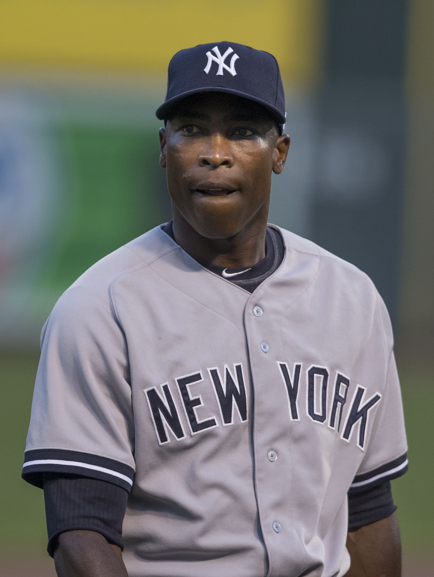 Alfonso Soriano - Yankees vs Orioles - Sept 11, 2013